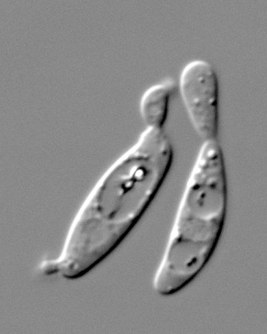 Two polarly budding basidiomycete yeast cells